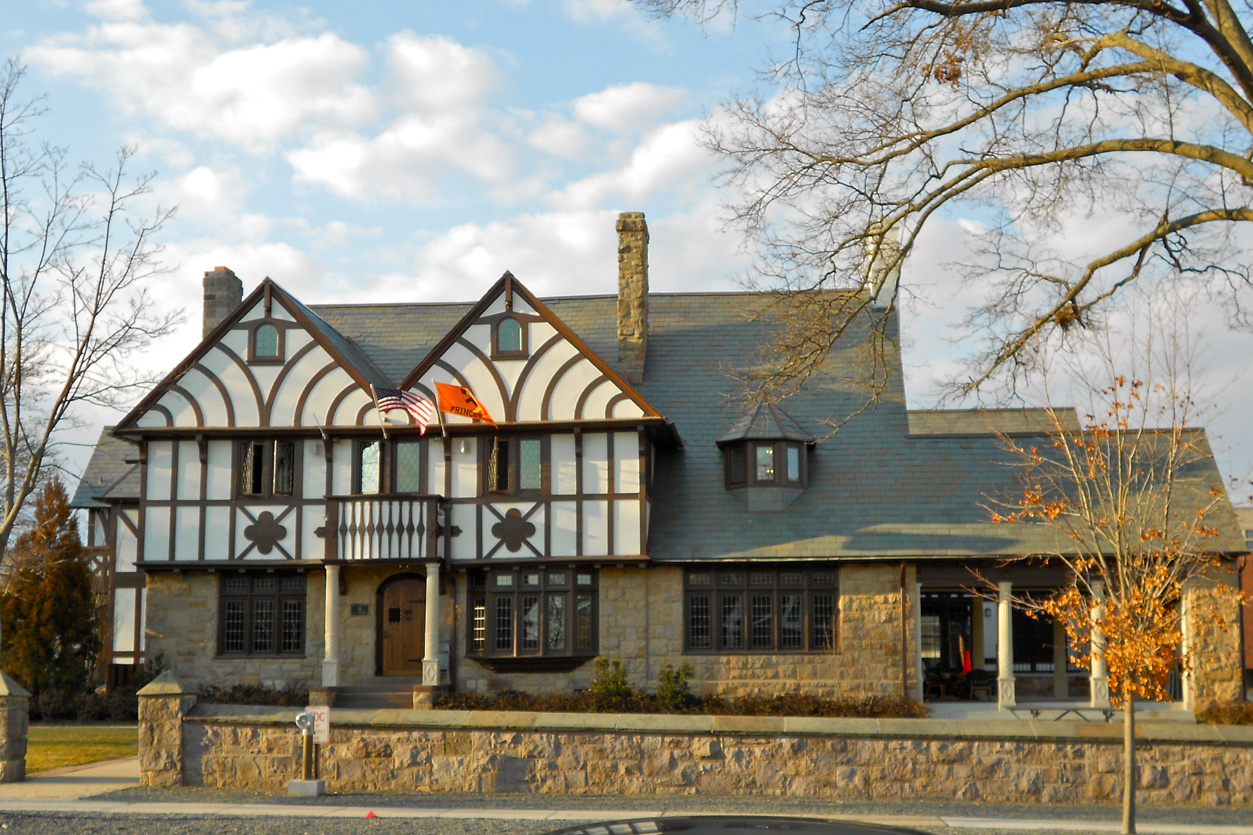 Tiger Inn operated as Eating Club at Princeton University 1890–present. 48 Prospect Ave This building built 1895. Princeton, New Jersey.